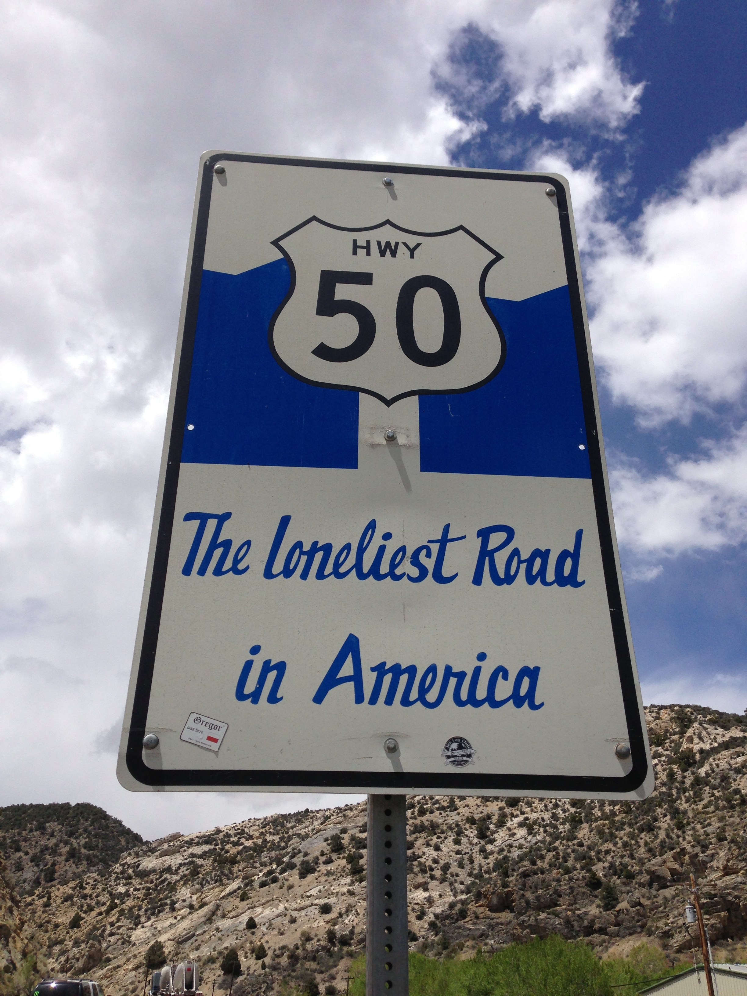 Sign for the Loneliest Road in America along U.S. Route 50 westbound just west of downtown Ely, Nevada